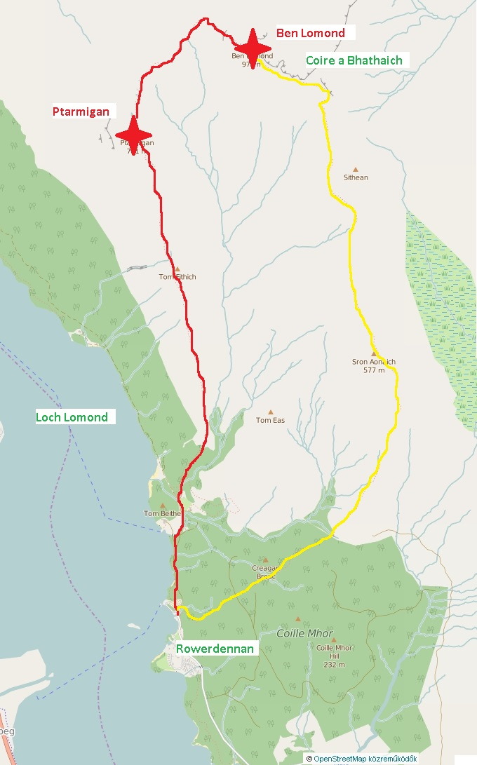 Trails to the summit of Ben Lomond.